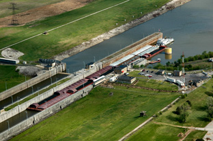 Aerial view of Locks 27, Mississippi River, located Granite City, Ill.